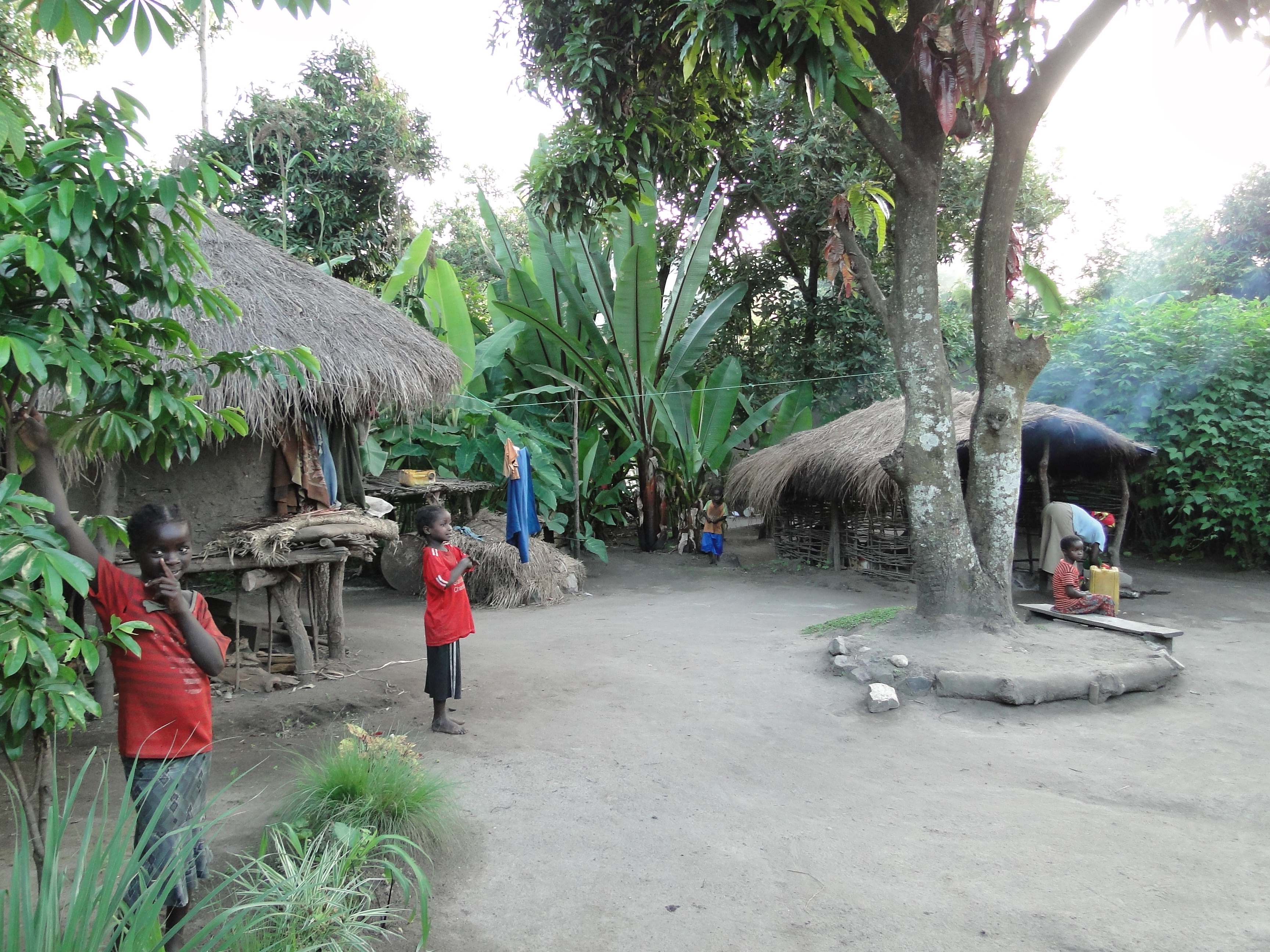 Aari village of Garteb near Jinka, Ethiopia